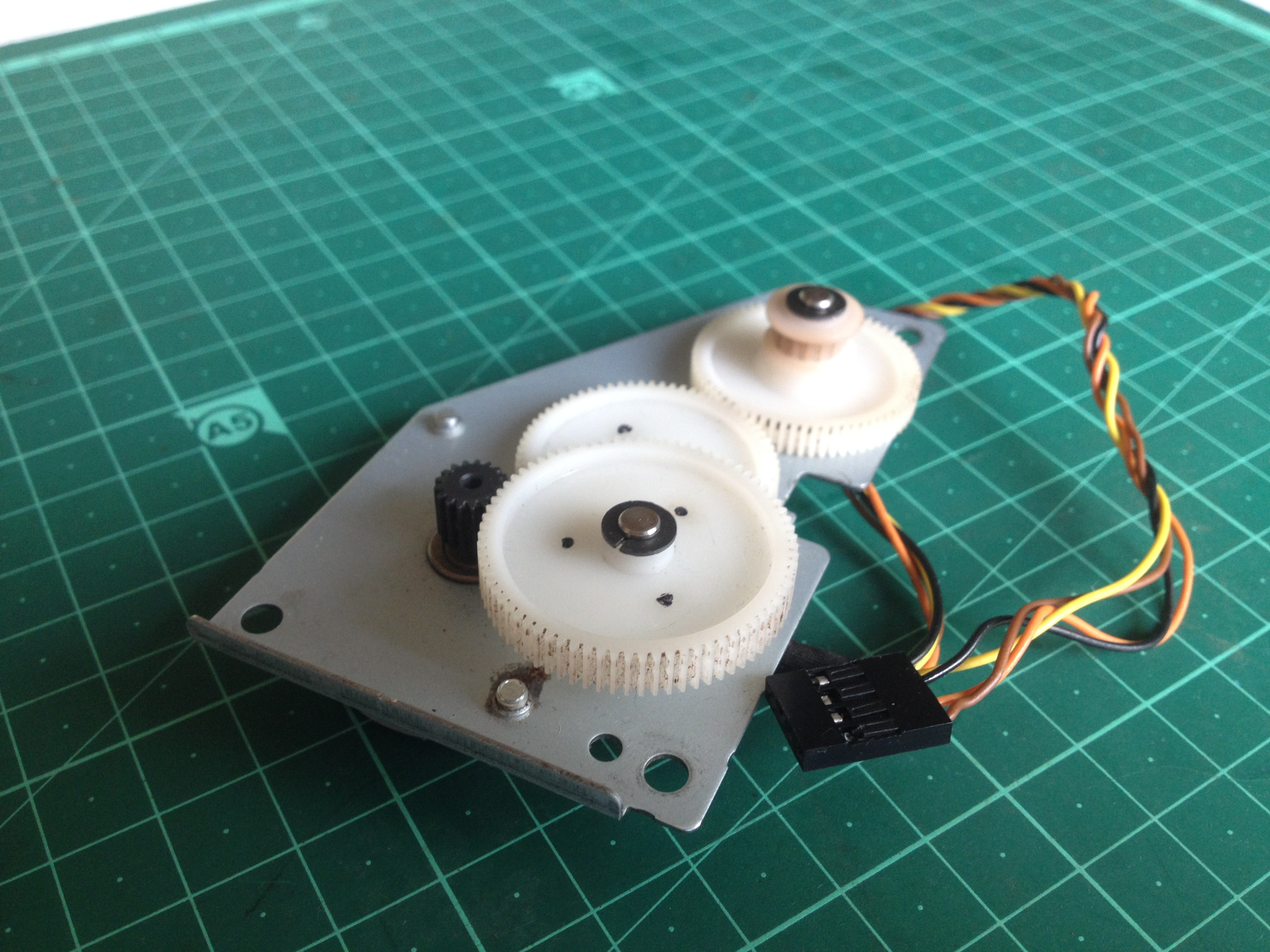 The stepper motor here has a very low torque output which can be increased by using a reduction gear mechanism. The gear mechanism helps to increase the resolution of the motor but introduces some backlash though.